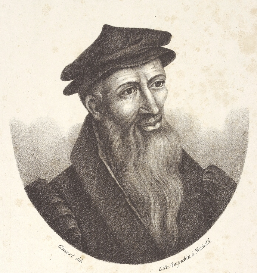 William Farel